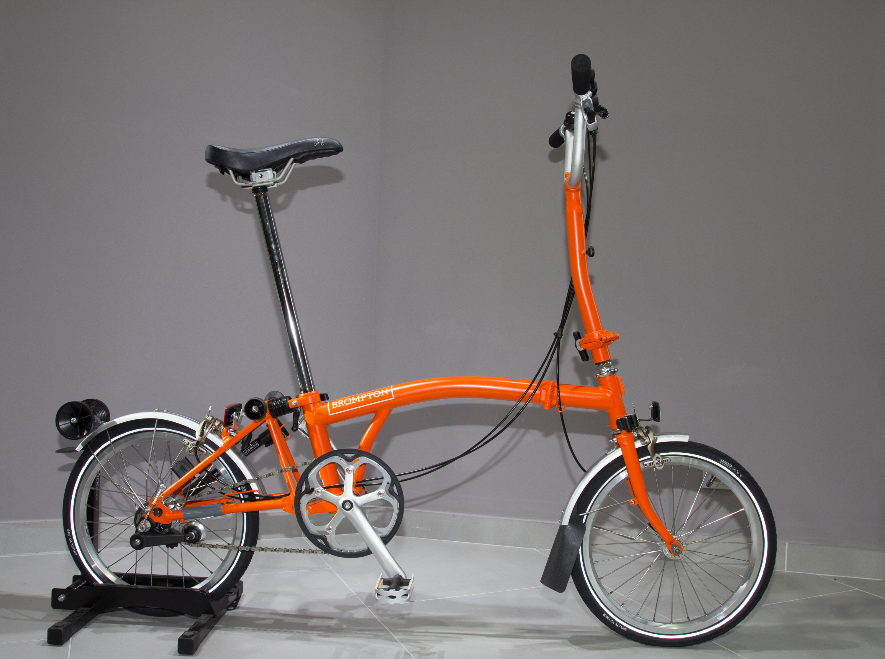 Unfolded Brompton bicycle